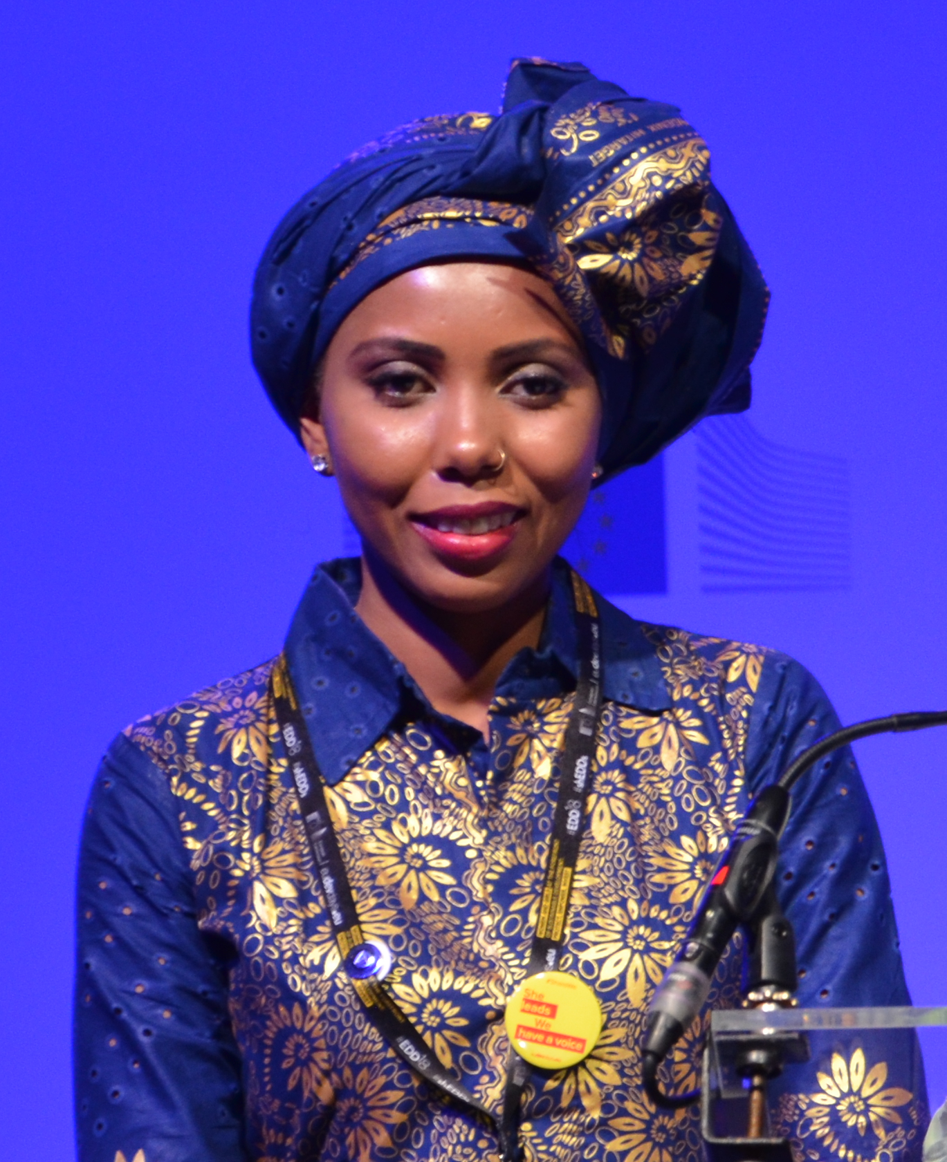 Deputy Secretary-General's Visit to Brussels/#EDD18, 5-6 June, 2018 Gambian women's rights activist Jaha Dukureh and United Nations Deputy Secretary-General Amina J Mohammed at European Development Days 18.